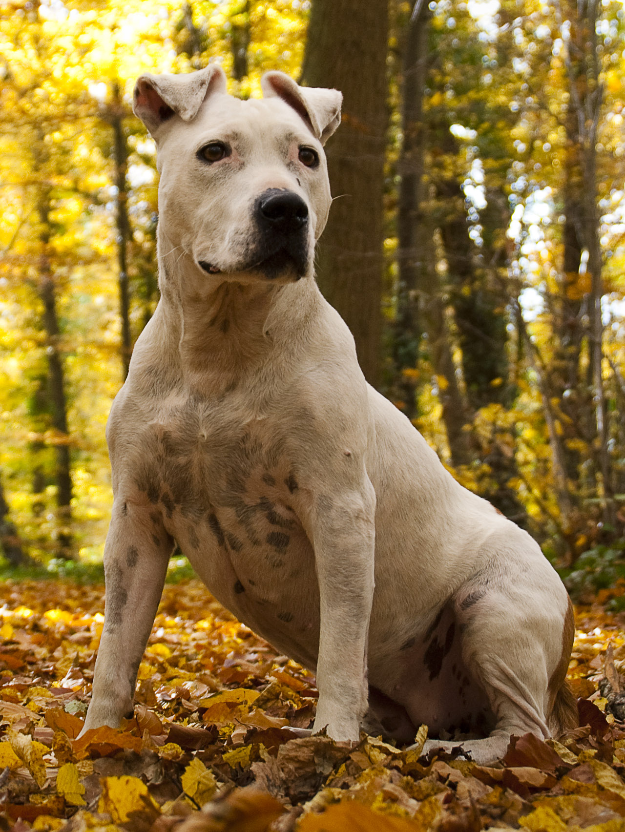 10 years old american staff